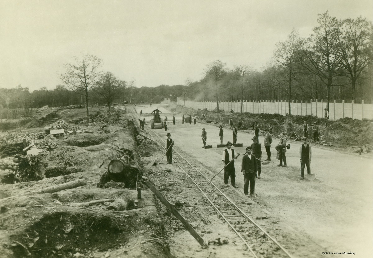 Autodrome de Montlhéry motor racing circui